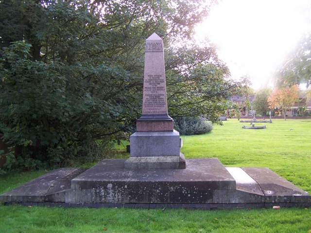 Memorial To Pelsall Hall Colliery Mining Disaster Situated in the Churchyard of St. Michael & All Angels, the stone reads: THIS STONE IS ERECTED TO COMMEMORATE THE SUDDEN AND DISASTROUS INUNDATION OF THE PELSALL HALL COLLIERY ON THE 14TH DAY OF NOVEMBER 1872 WHEREBY THE 22 MINERS WHOSE NAMES ARE INSCRIBED HEREON LOST THEIR LIVES AND WHOSE BODIES ARE, WITH THE EXCEPTION OF JOHN HUBBARDS'S, BURIED BENEATH "IN THE MIDST OF LIFE WE ARE IN DEATH"